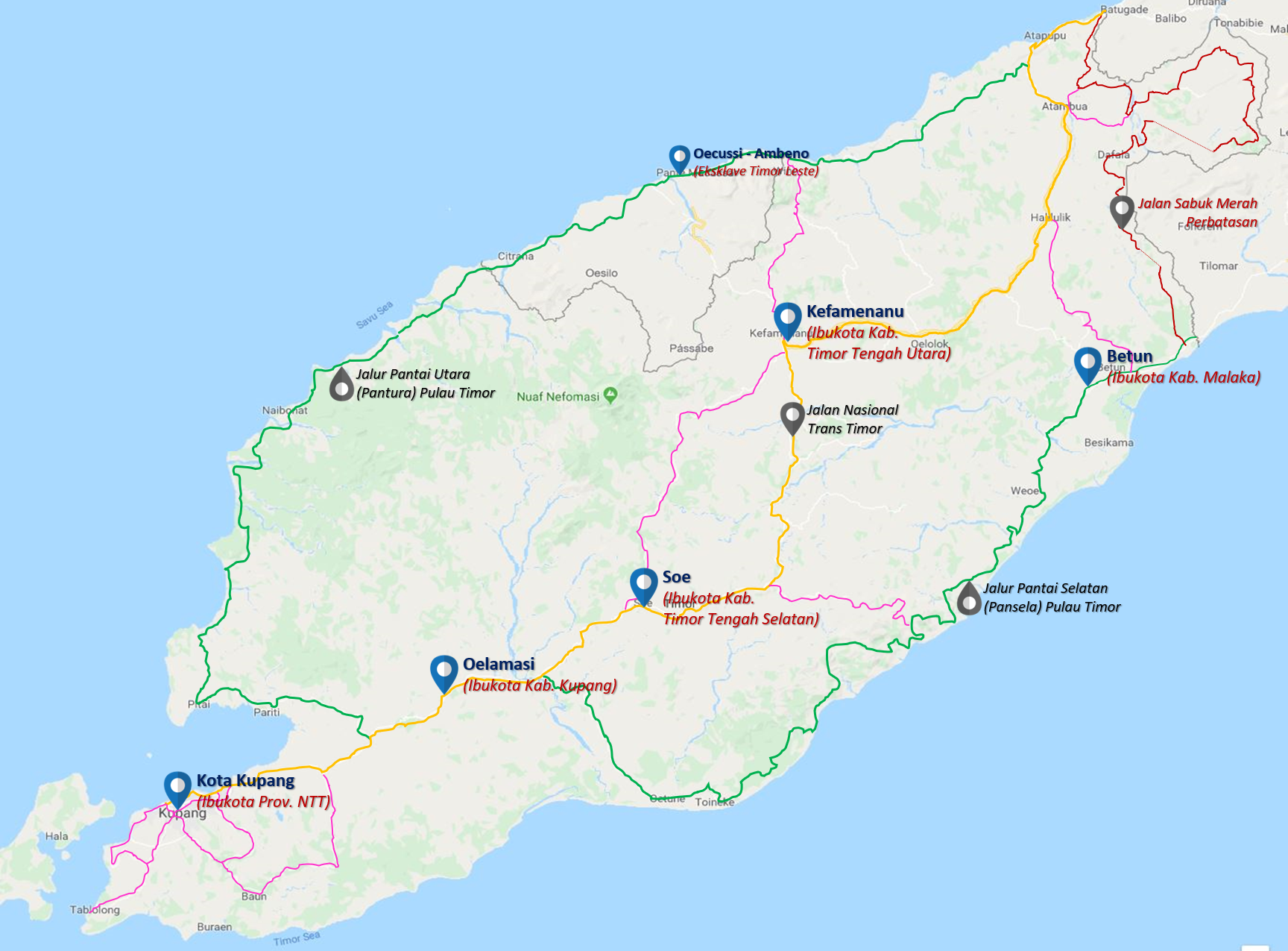 Main Roads connecting cities in West Timor